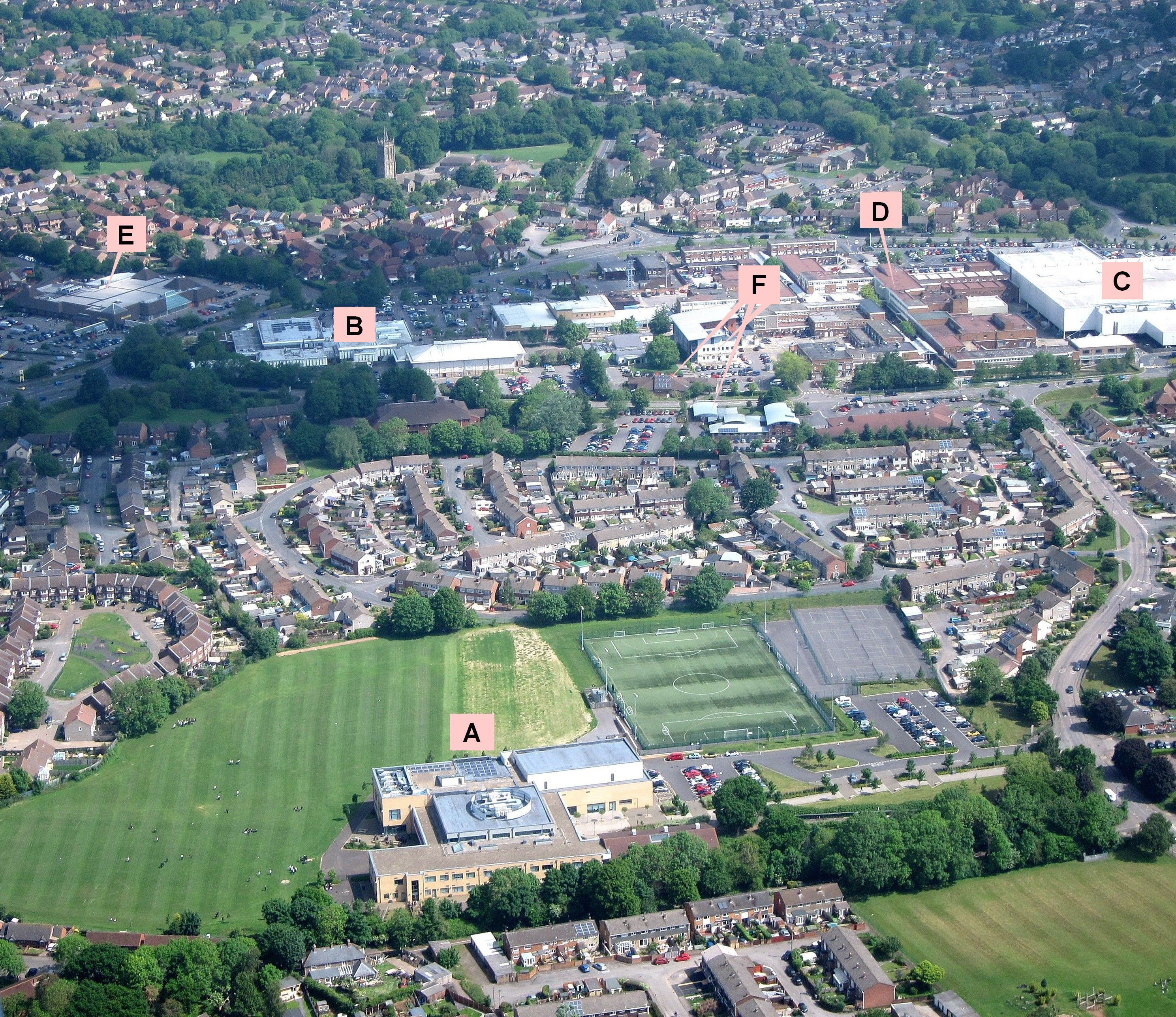 Part of Yate, South Gloucestershire, England. Taken from the (open) window of a Piper Cherokee Warrior during a pleasure flight from Gloucestershire Airport, Cheltenham. A = Yate Academy (a secondary school) B = the Sports Centre C = Tesco, E = Morrisons (supermarkets) D = Yate shopping centre F = GP surgeries